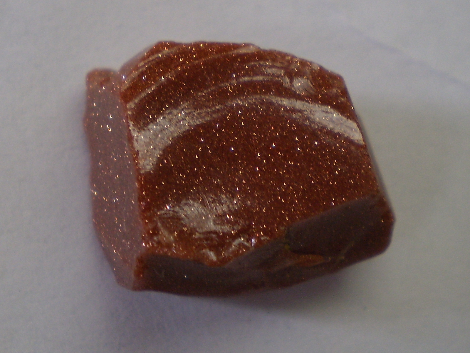 gold stone image